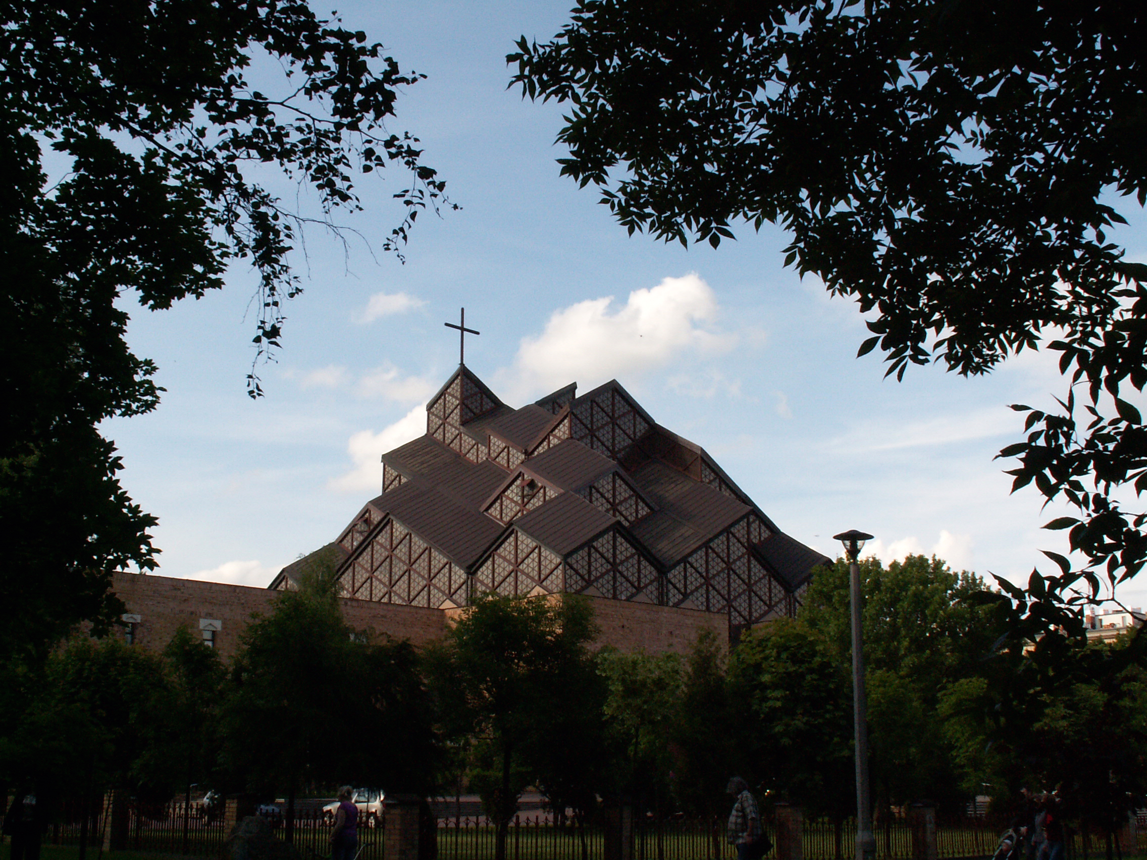 Church of Our Lady of Czestochowa. Krakow Nowa Huta os. Szklane Domy